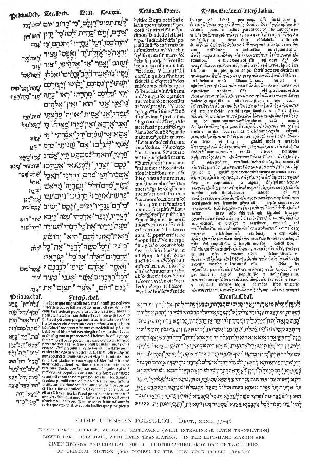 Complutensian Polyglote Bible, Deuteronomy 32:33-46